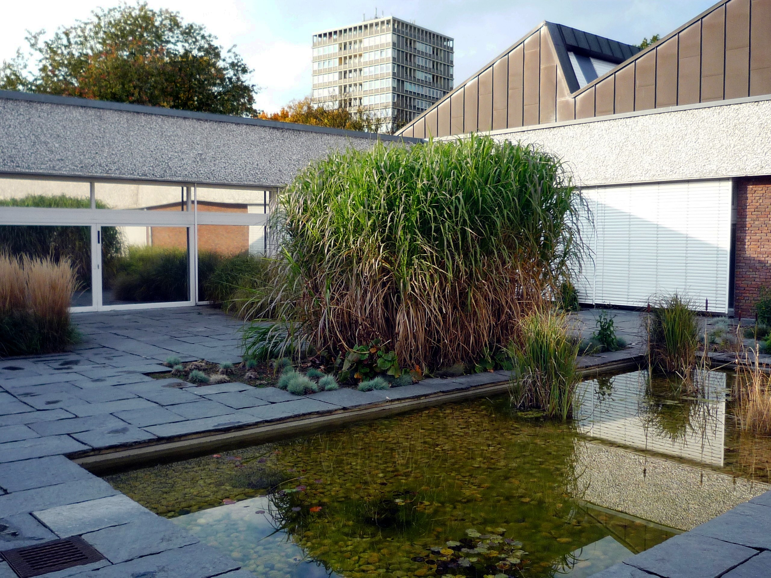 Akademie der Künste (academy of fine arts) Berlin, Hanseatenweg 10. Architect: Werner Düttmann, 1960. Planted court-yard inside the building.